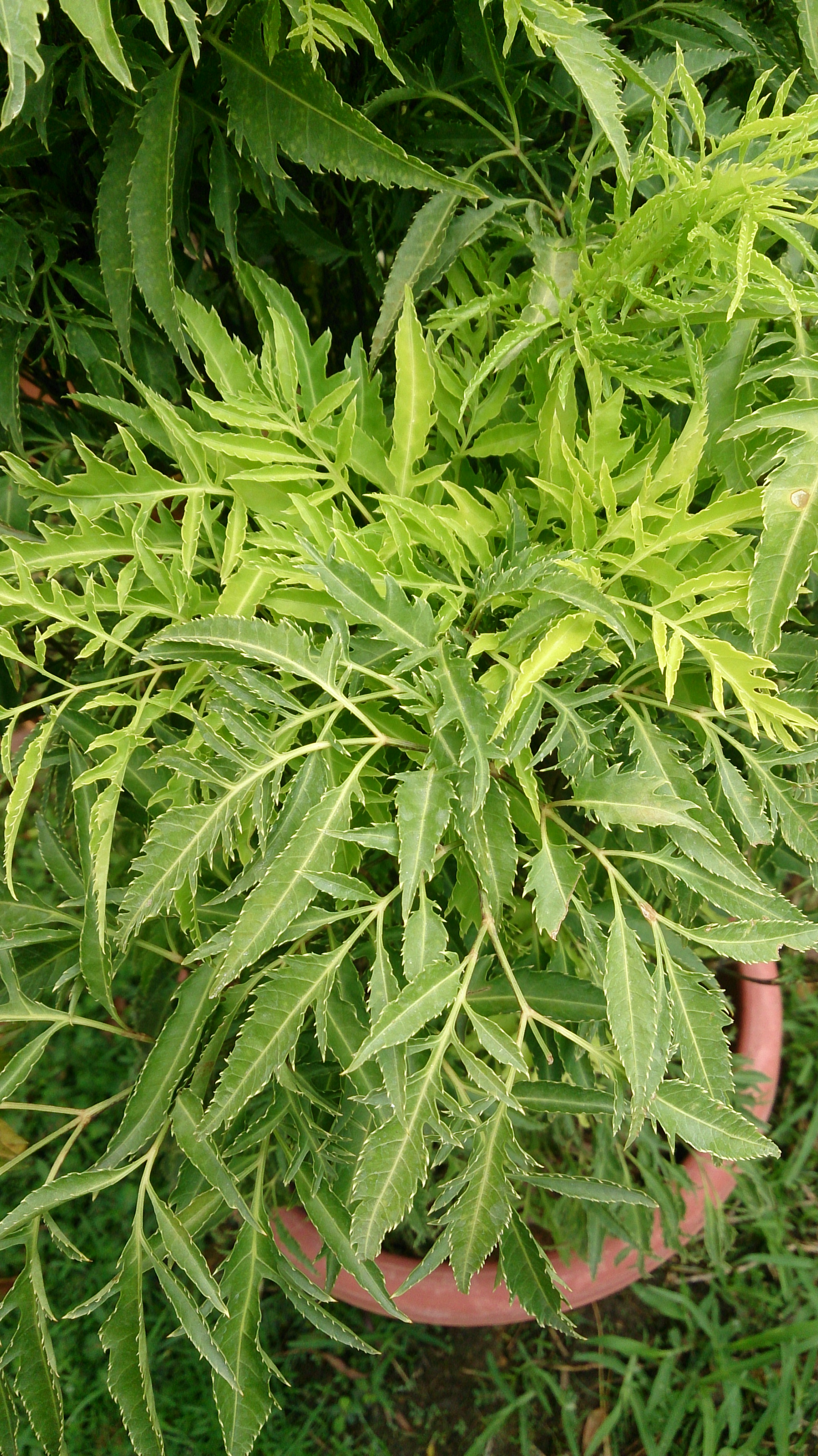 Polyscias cumingiana. Common name: Fern-Leaf Aralia